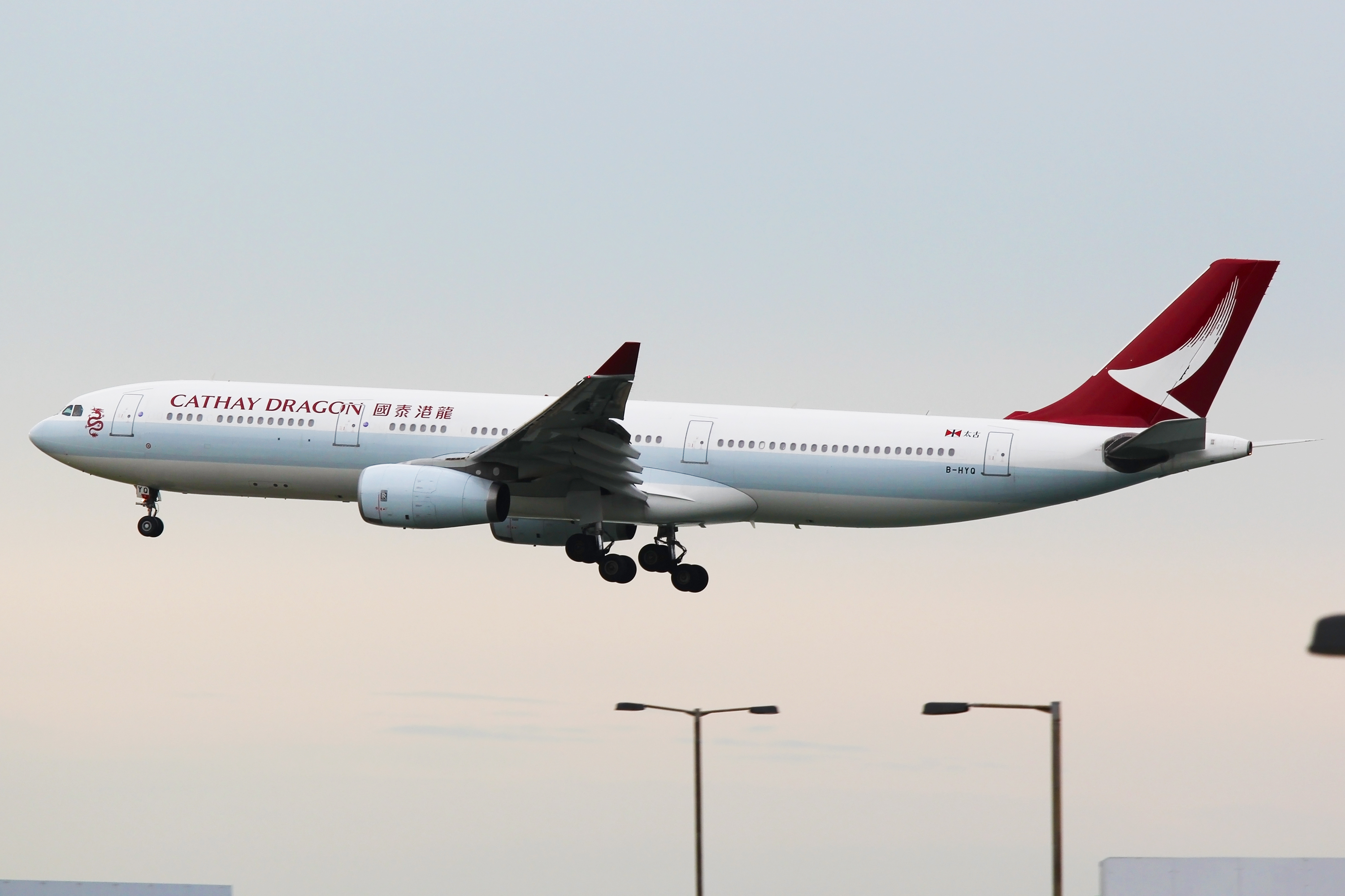 Cathay Dragon Airbus A330-343 (B-HYQ) approaching Hong Kong International Airport.中文（中国大陆）: 国泰港龙航空一架空中客车A330-343 (B-HYQ) 在香港国际机场降落。中文（香港）: 國泰港龍航空一架空中巴士A330-343 (B-HYQ) 在香港國際機場降落。